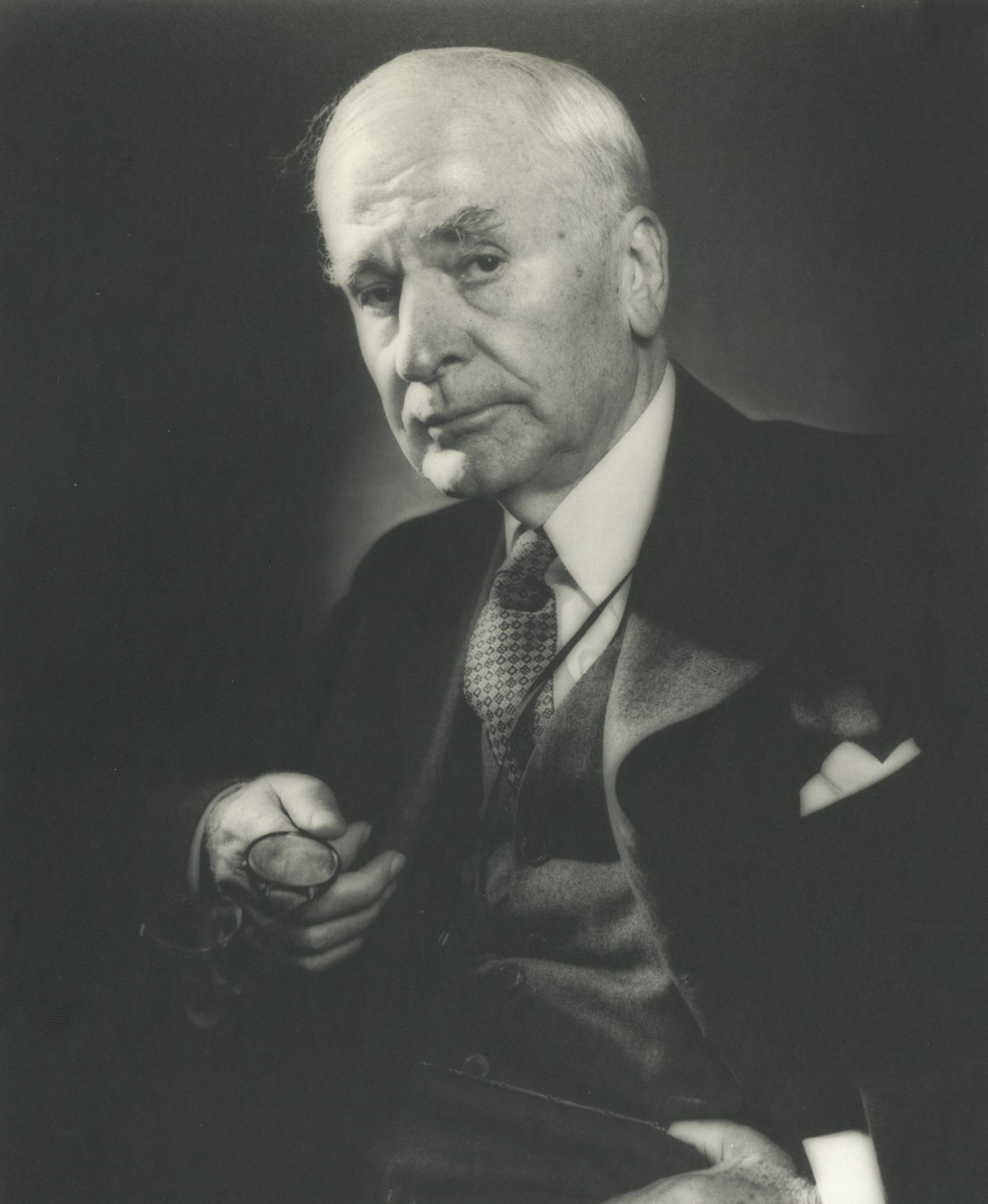 Cordell Hull, U.S. Secretary of State, March 4, 1933 to November 30, 1944